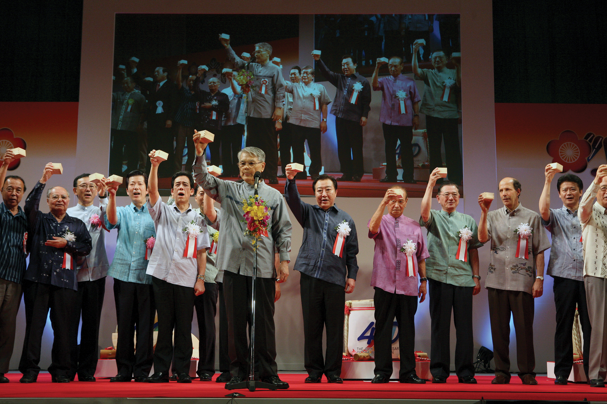 Japanese and U.S. government officials and Okinawans celebrate at the reception for the Okinawa Reversion 40th anniversary ceremony at the Okinawa Convention Center in Ginowan City May 15. “The 40th anniversary of the Reversion is an incredible landmark in the relationship between the U.S. and Japan,” said John Roos, U.S. Ambassador to Japan. “It is another symbol of the deep relationship between our two countries.”